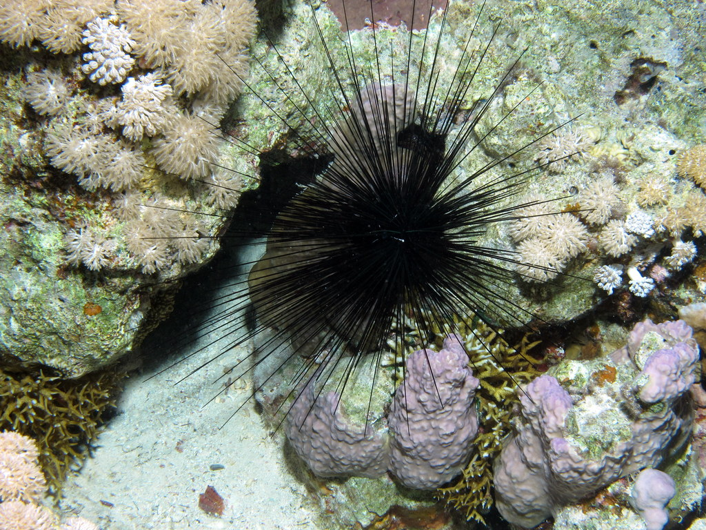 Common Longspined Sea Urchin, Diadema paucispinum at Abu Dabab Reefs, Red Sea, Egypt #SCUBA